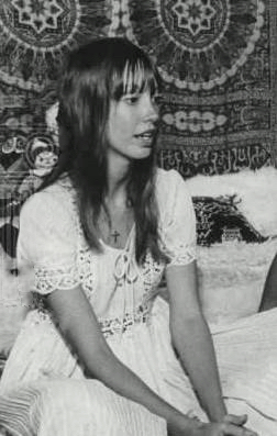 Press photo of Shelley Duvall from 1971